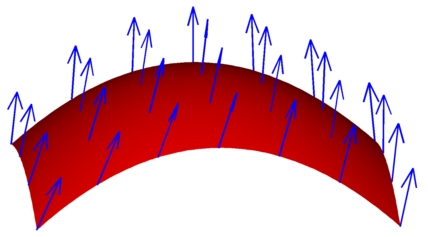 A vector field on a surface.